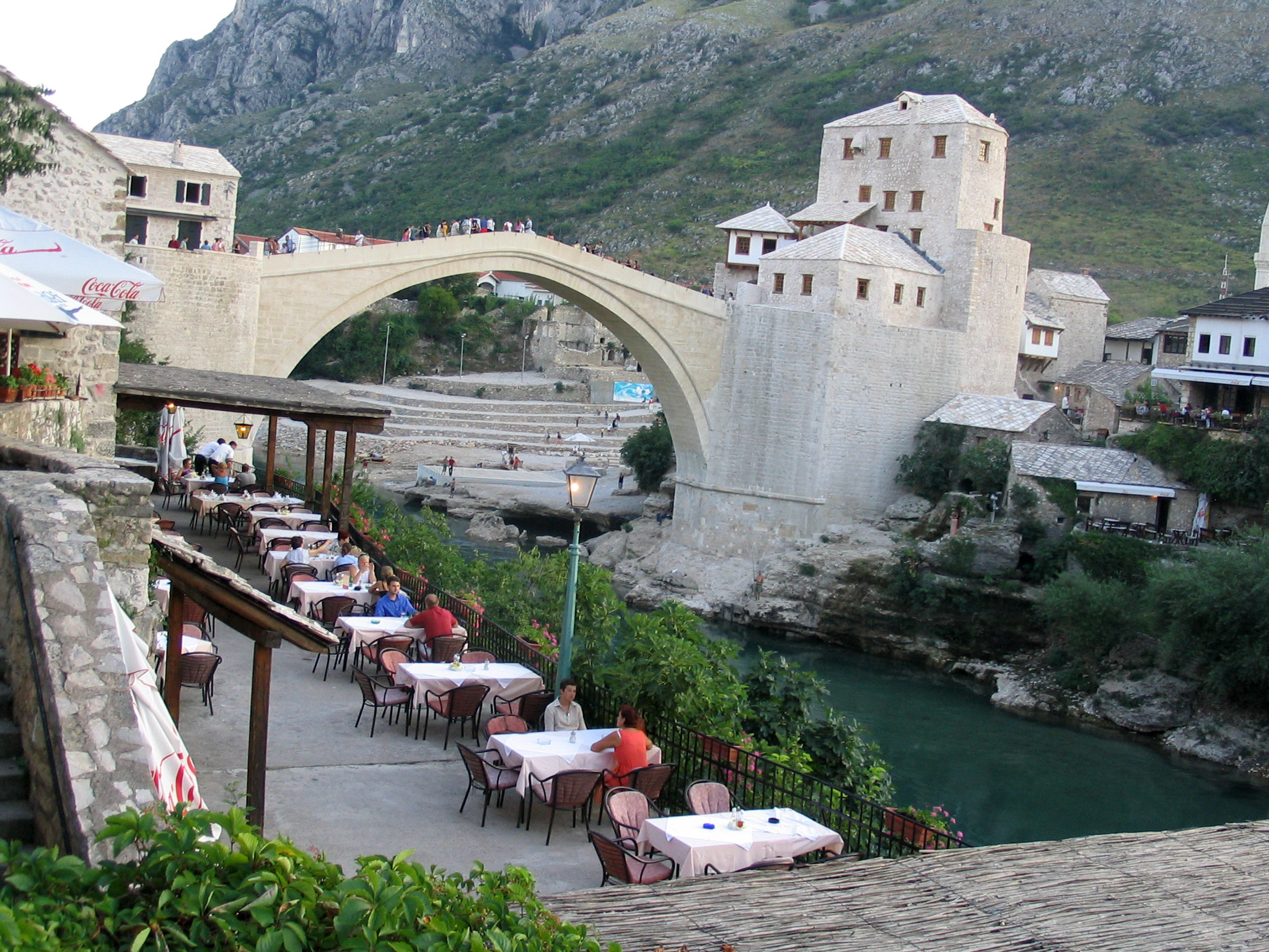 Mostar - Stari Most: The rebuilt old bridge in Mostar, Bosnia. Recently reopened after being destroyed in the war between the Bosnia-Croatians.